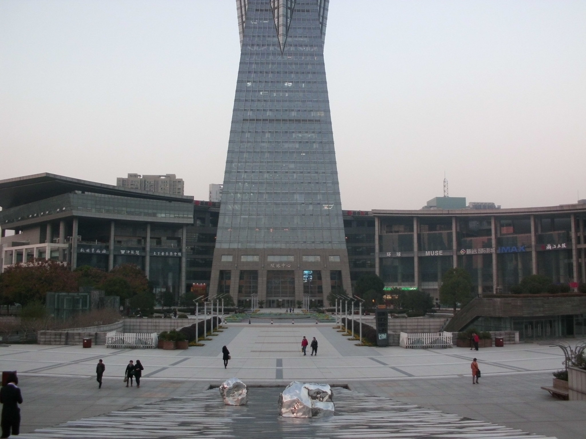 Westlake Cultural Square